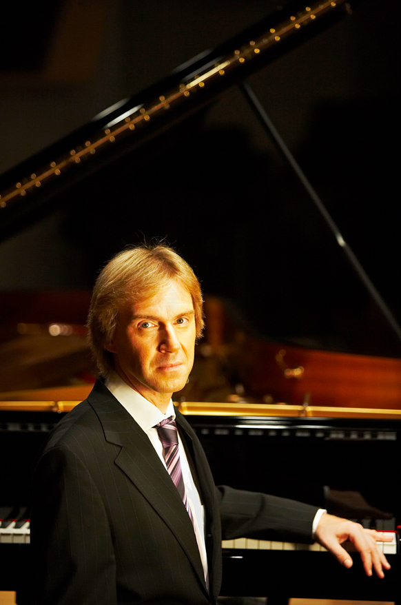 Burkard Schliessmann